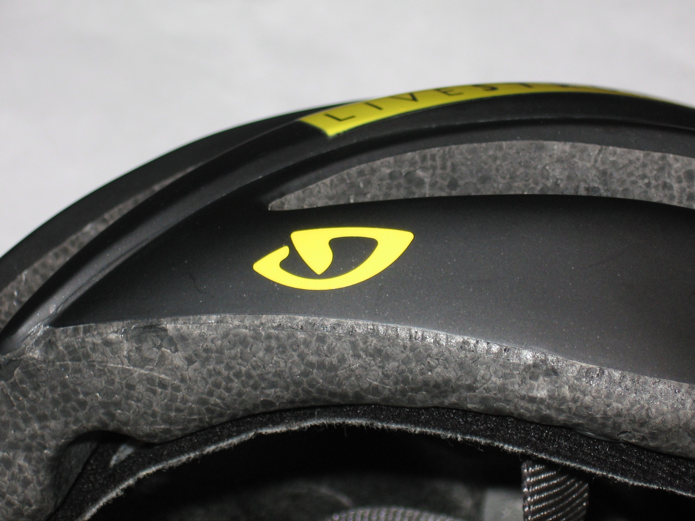 The side of a Giro Atmos showing in mould construction.